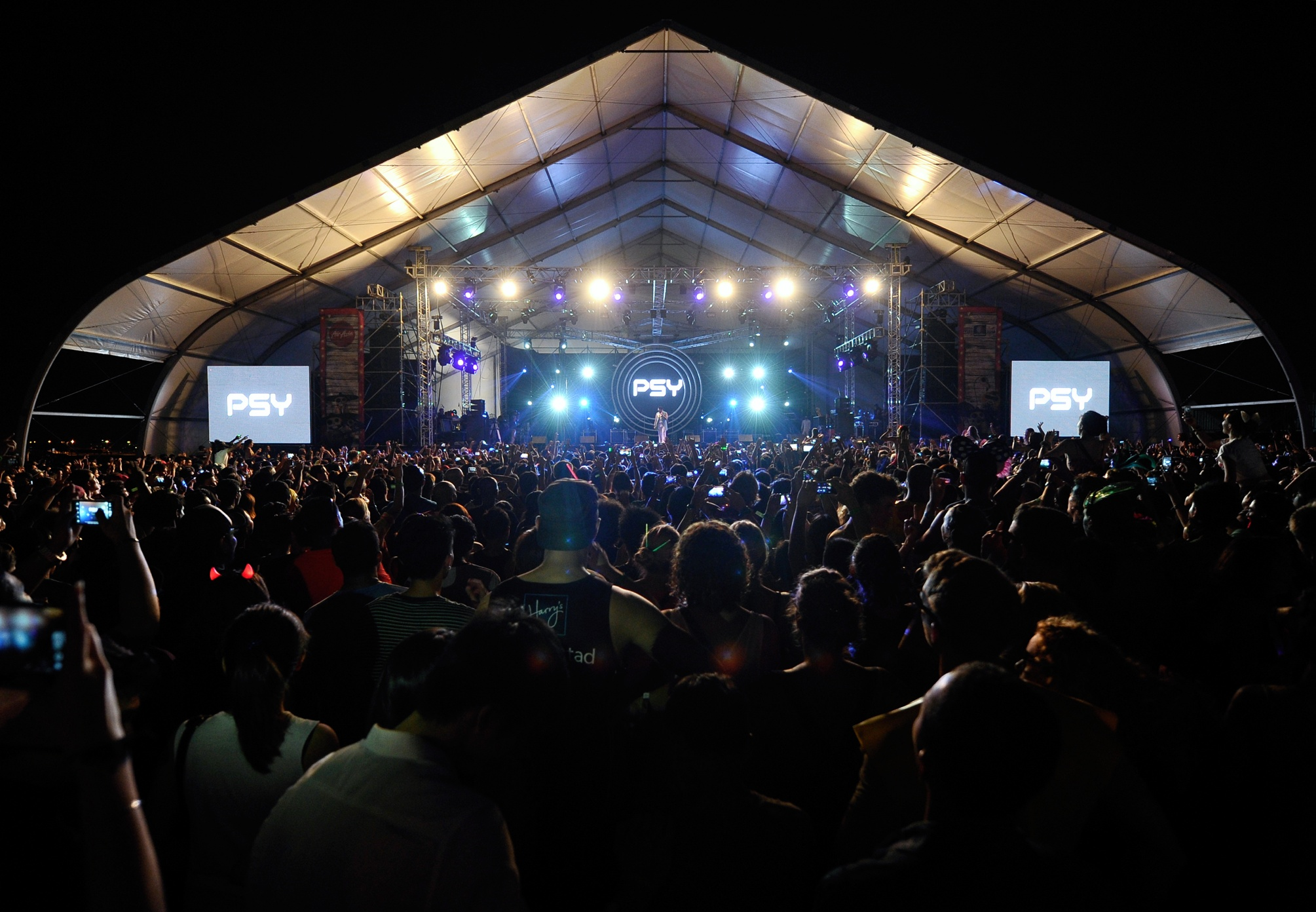 SEPANG,17/03/2013.Crowd duirng Future Music Festival Asia 2013 at Sepang. Pix Firdaus Latif